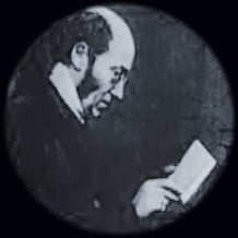 Portrait of William Thoms (1803-1885)